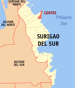 Map of the Surigao del Sur showing the location of Cortes